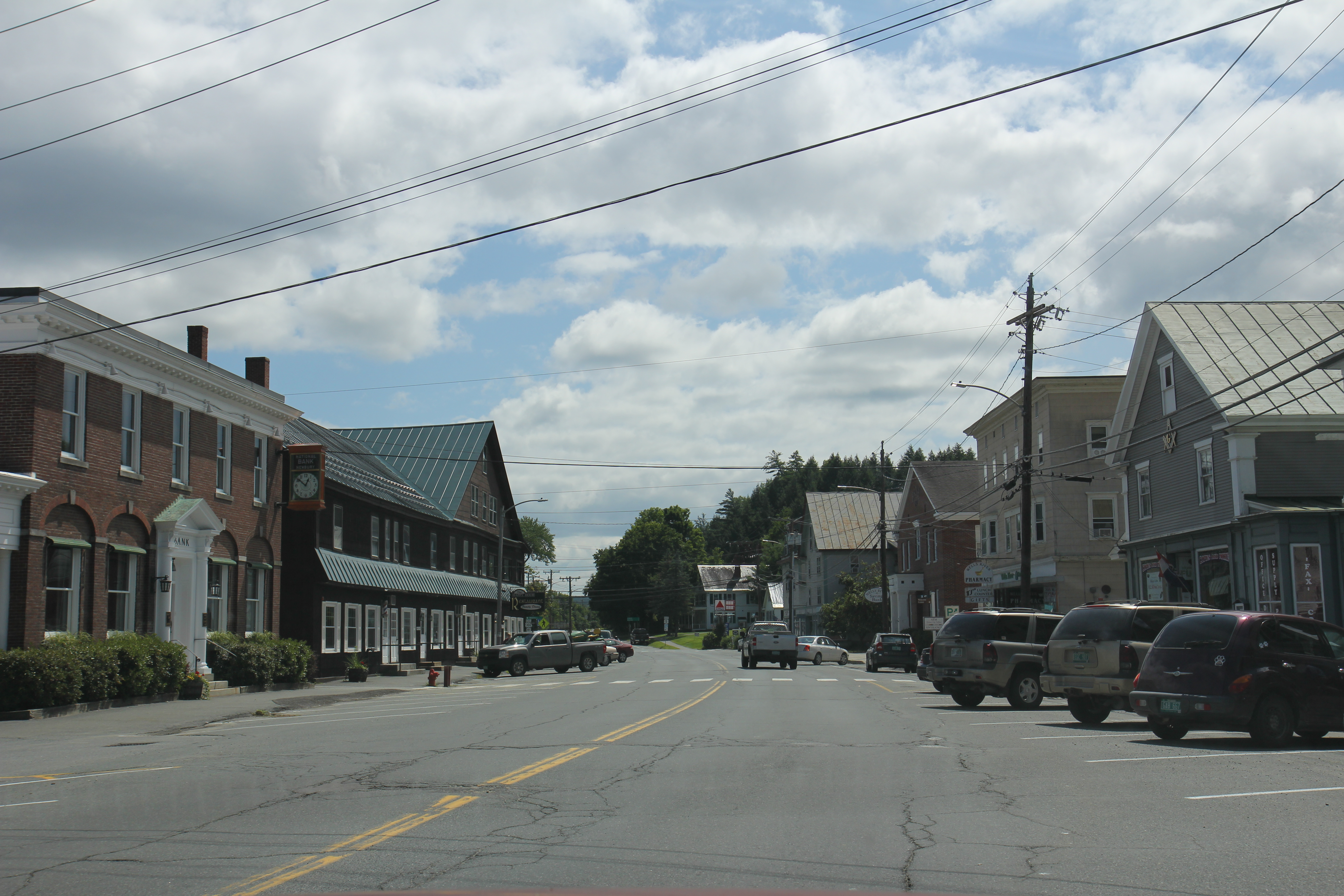 Downtown Newbury, VT on US302 / US5